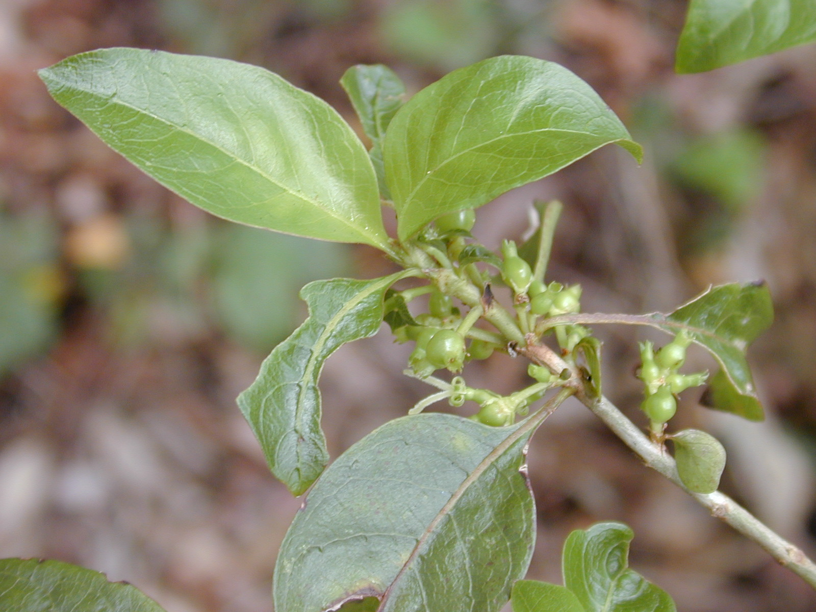 Coprosma foliosa (flowers and fruits). Location: Maui, Makawao Forest Reserve